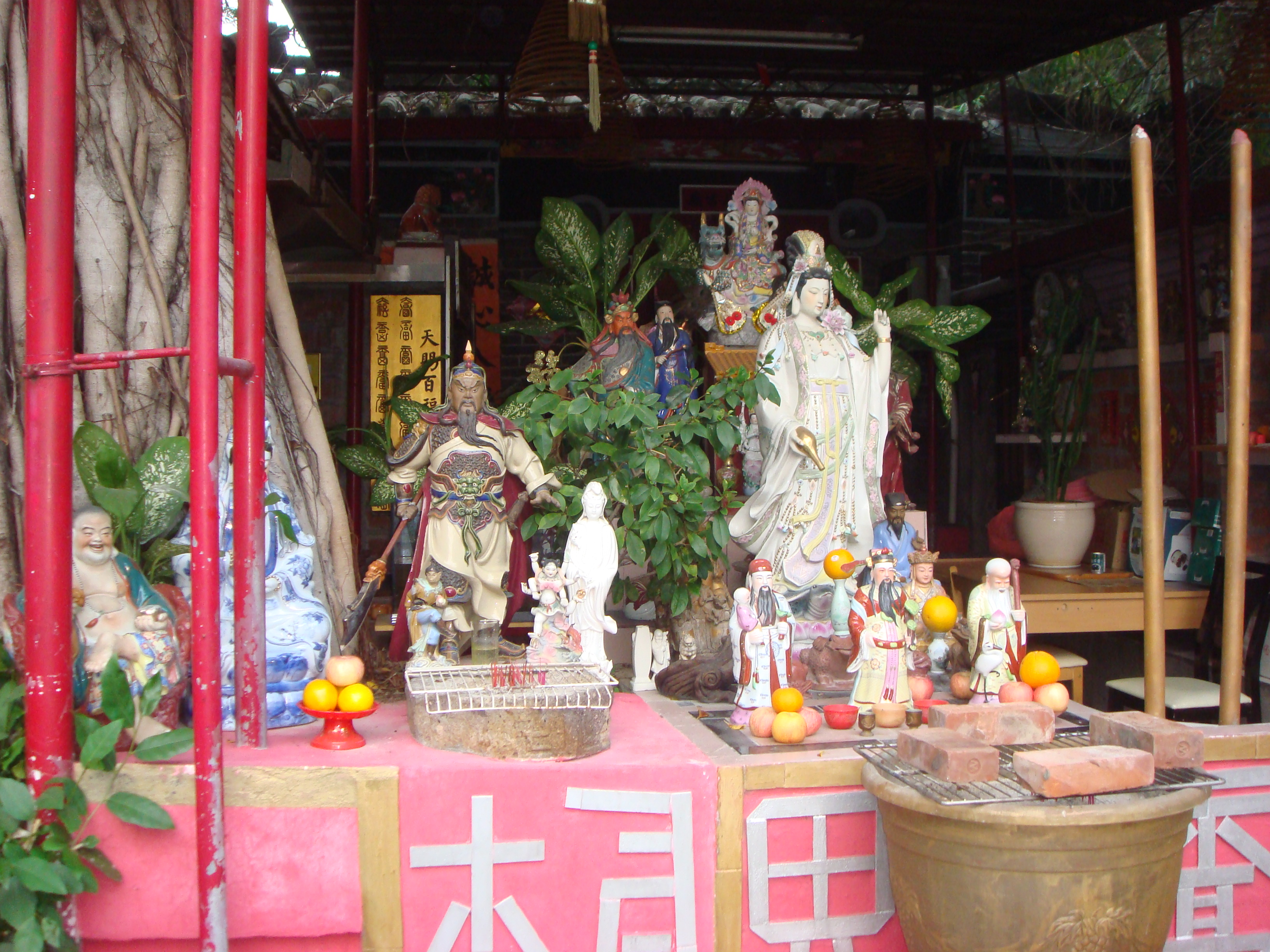 Tin Hau Temple, Tung Tau Tsuen, in Yuen Long Kau Hui, Hong Kong